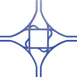 Divided Volleyball Road Interchange